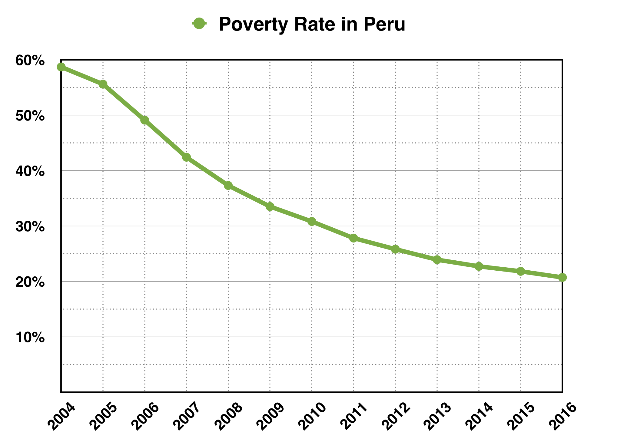 Poverty rate of Peru from 2004 to 2016.